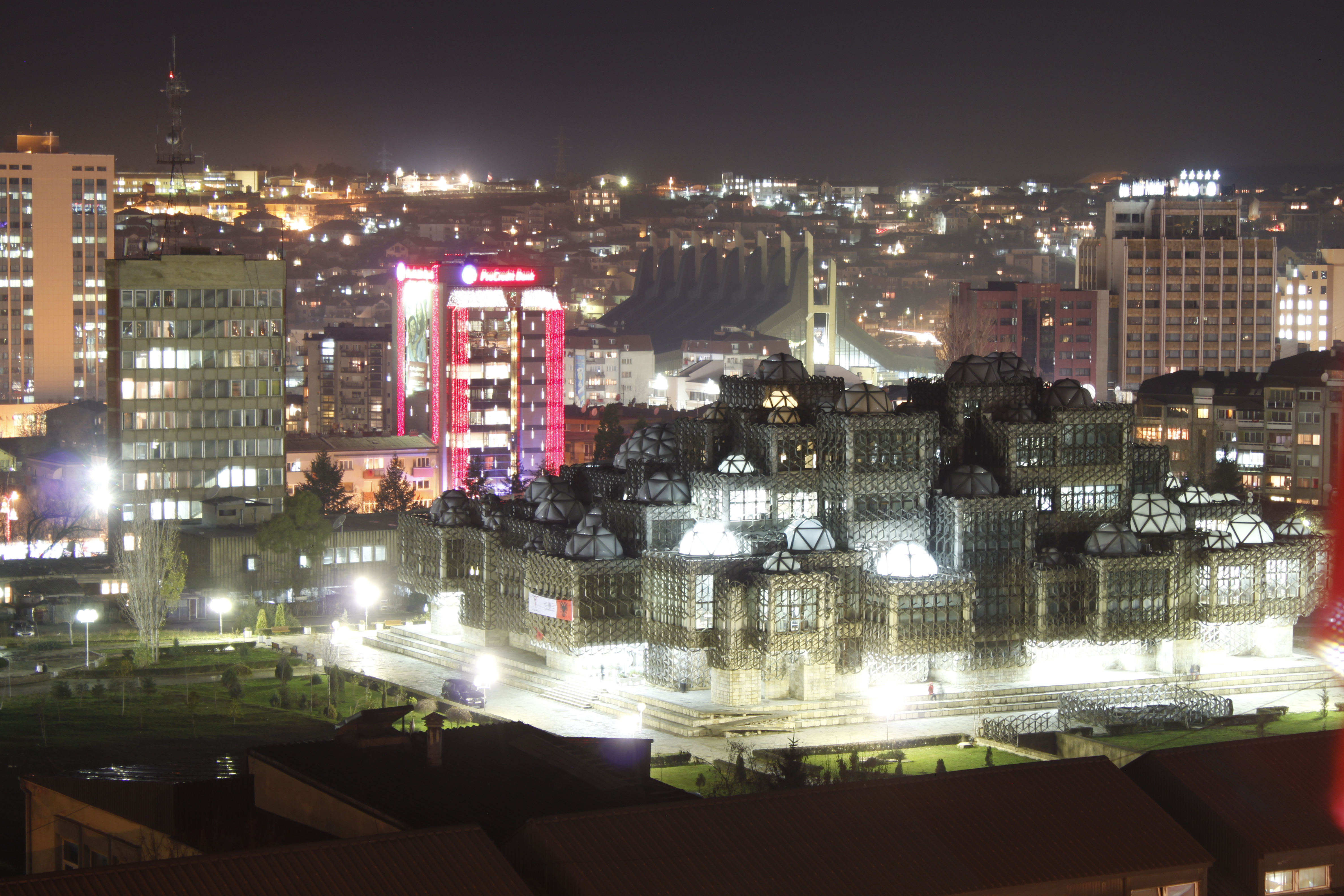 Prishtina National Library at Night